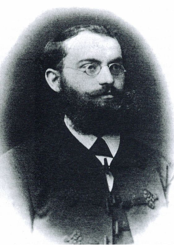 Czech teacher and writer Jan Karel Hraše (1840–1907)